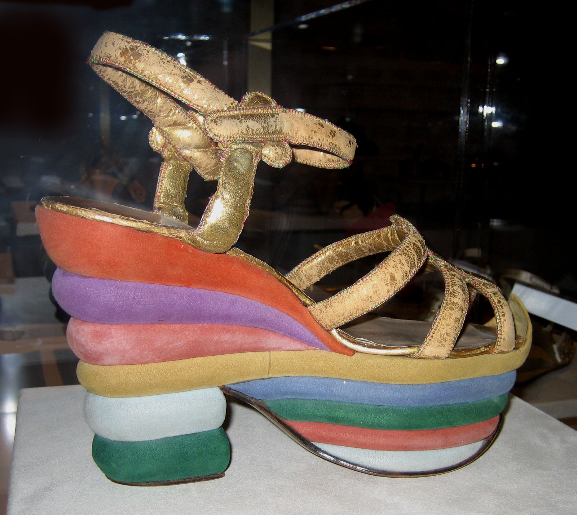 Model of shoe called " zeppa” created in 1938 by Salvatore Ferragamo for Judy Garland, Salvatore Ferragamo Museum - Italy